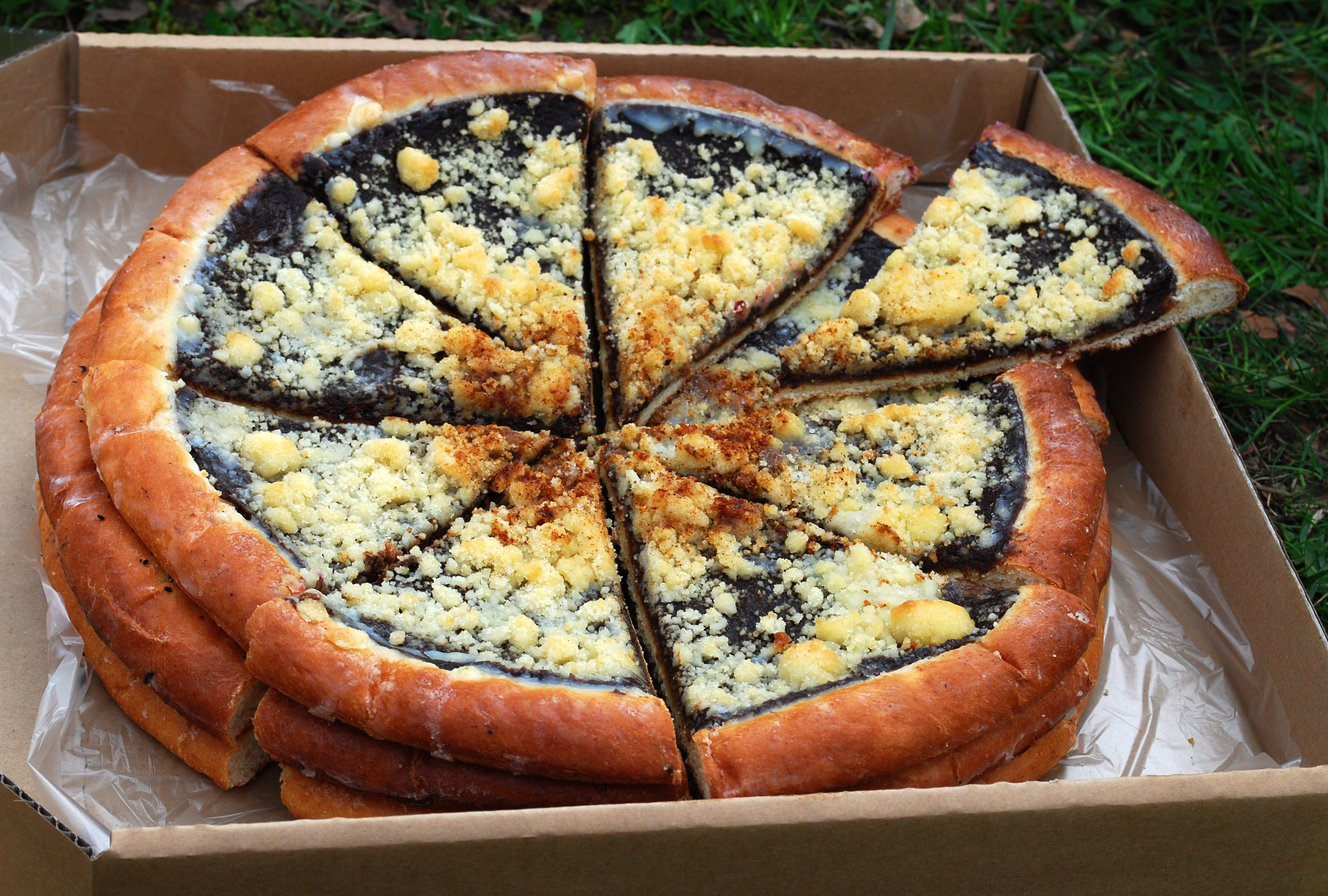 Traditional valachian sweet kolache - frgal